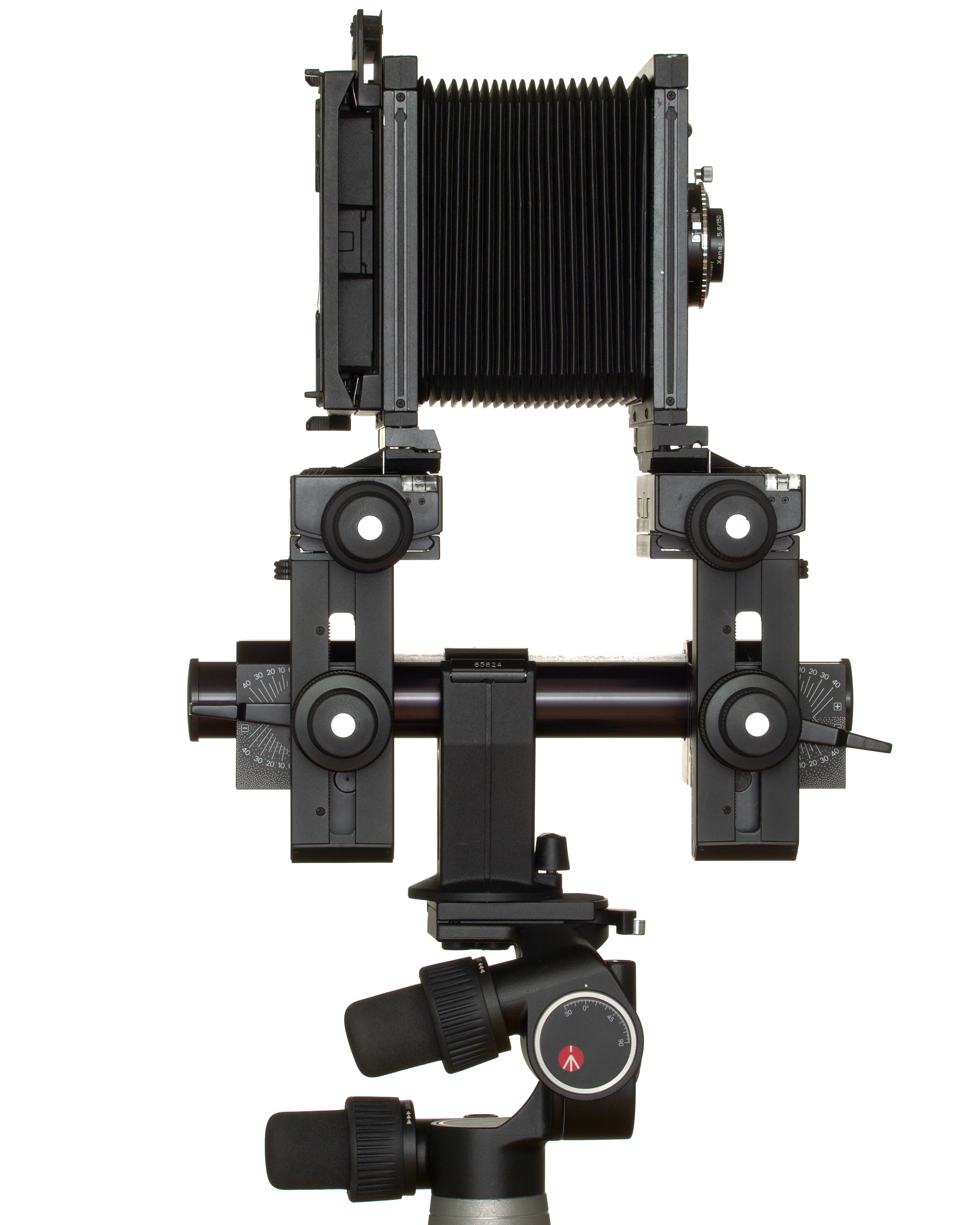 Image of a Sinar P2.